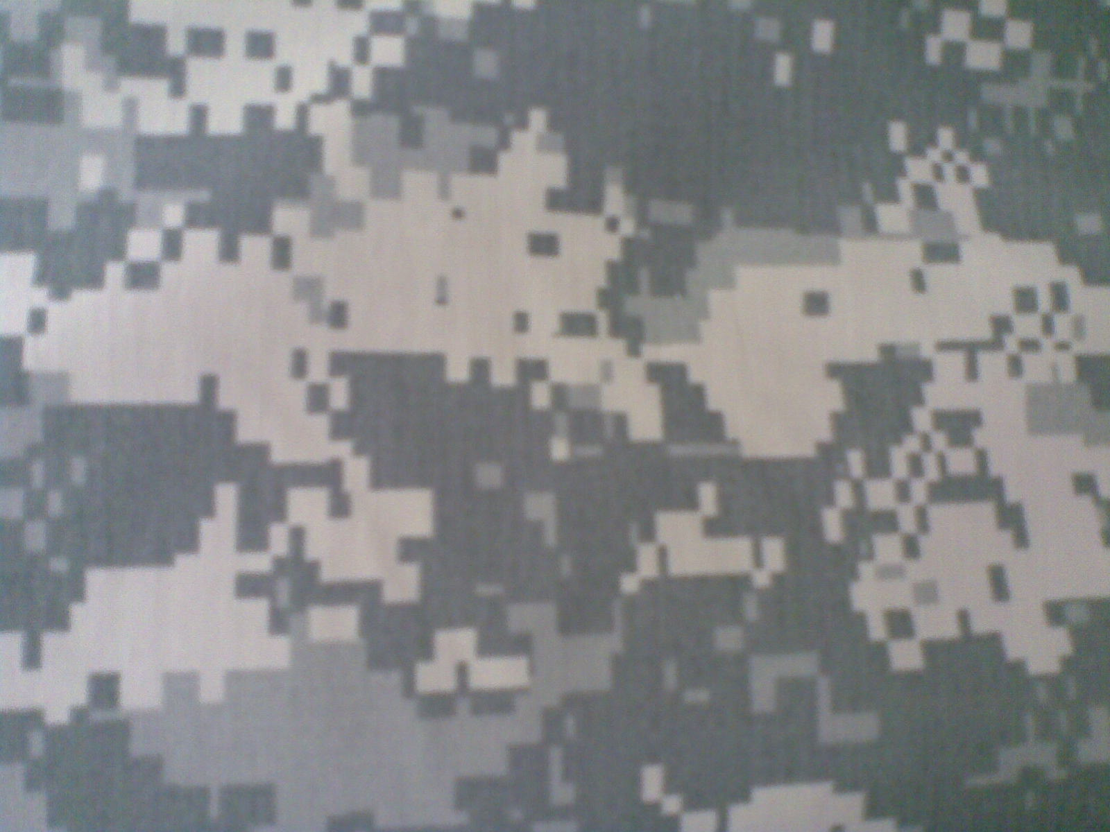 Universal Camouflage Pattern of the United States Army ACU (Army Combat Uniform).